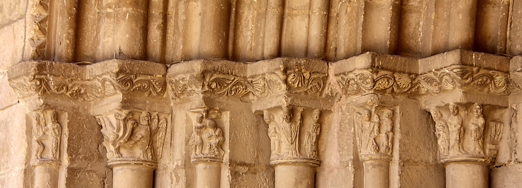 Chapitel of the San Vicente Cathedral, in Roda de Isábena, Huesca, Spain.